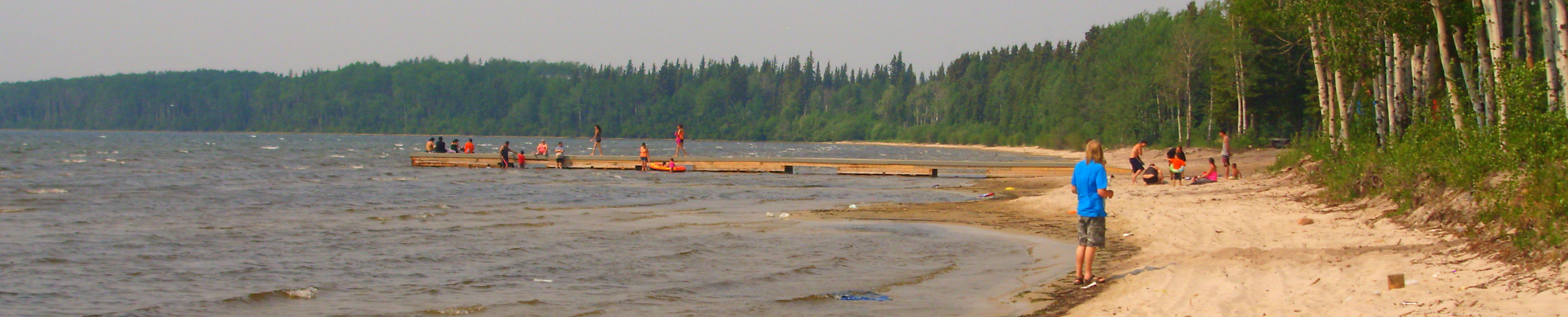 Clearwater Beach on the Clearwater River Dene Nation Cultural Grounds. A pall of smoke from nearby forest fires obscures the sky.